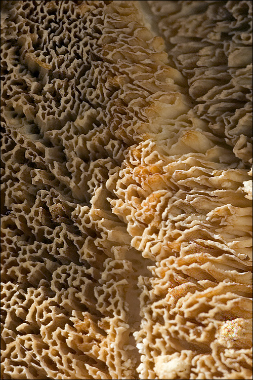 Pore surface of the polypore Cerrenna unicolor.